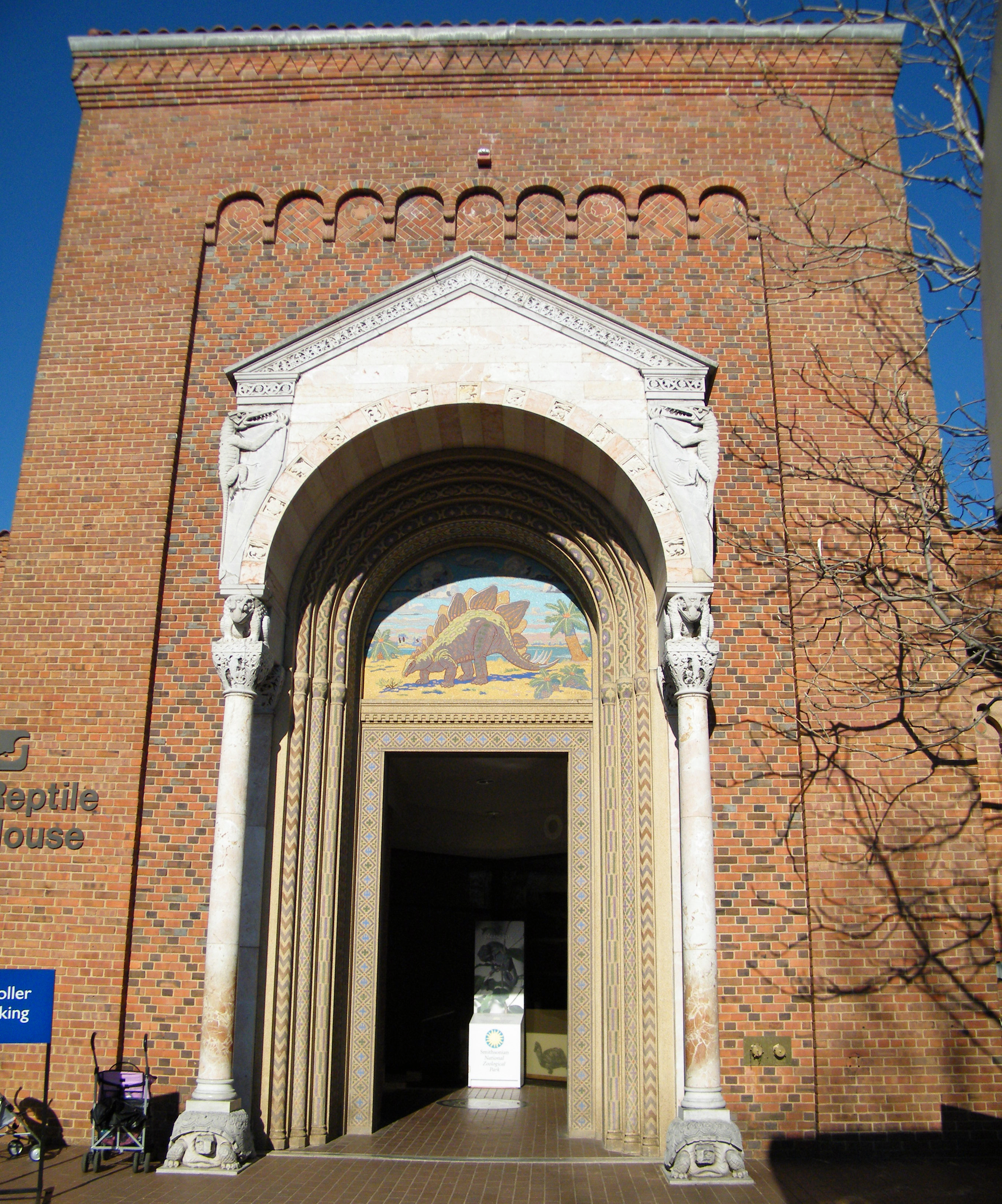 National Zoological Park